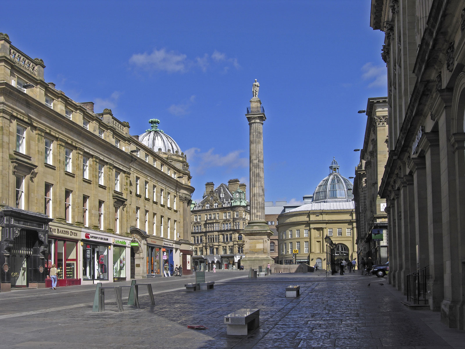 Greys Monument